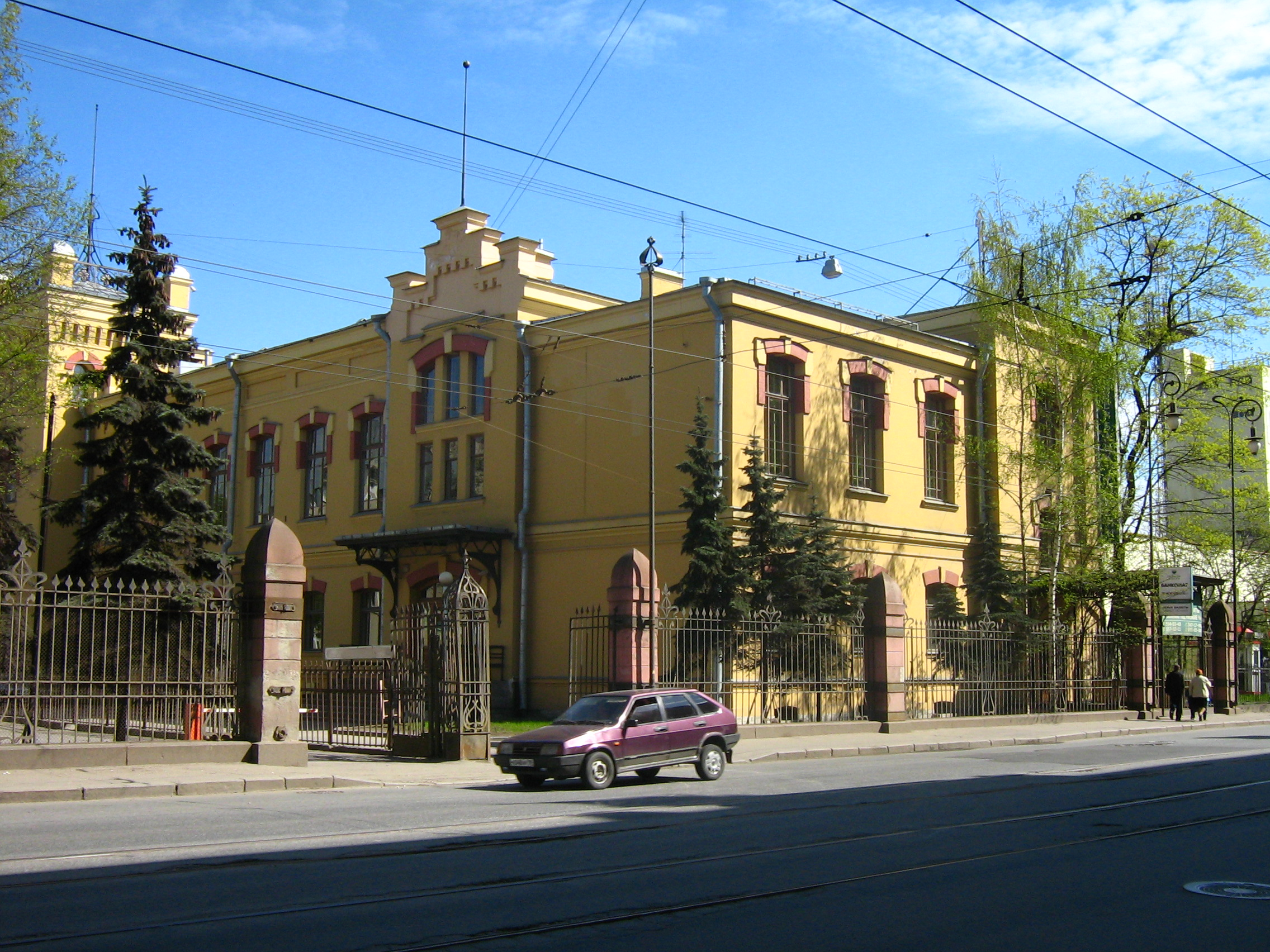 Lesnoy avenue - People house of Nobel (St.-Petersburg, Russia)